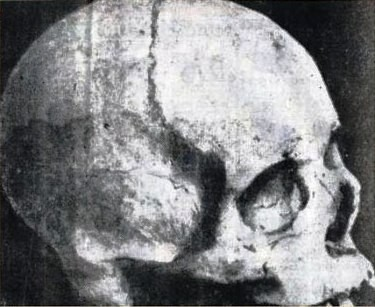 Photograph of Keppetipola Disawe's Skull. සිංහල: කැප්පෙටිපොළ දිසාවේගේ හිස් කබල.